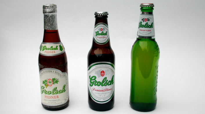 Three Grolsch bottles, from left to right: model "Appolinaris" before 1986, model BNR-CBK and own model after 2007